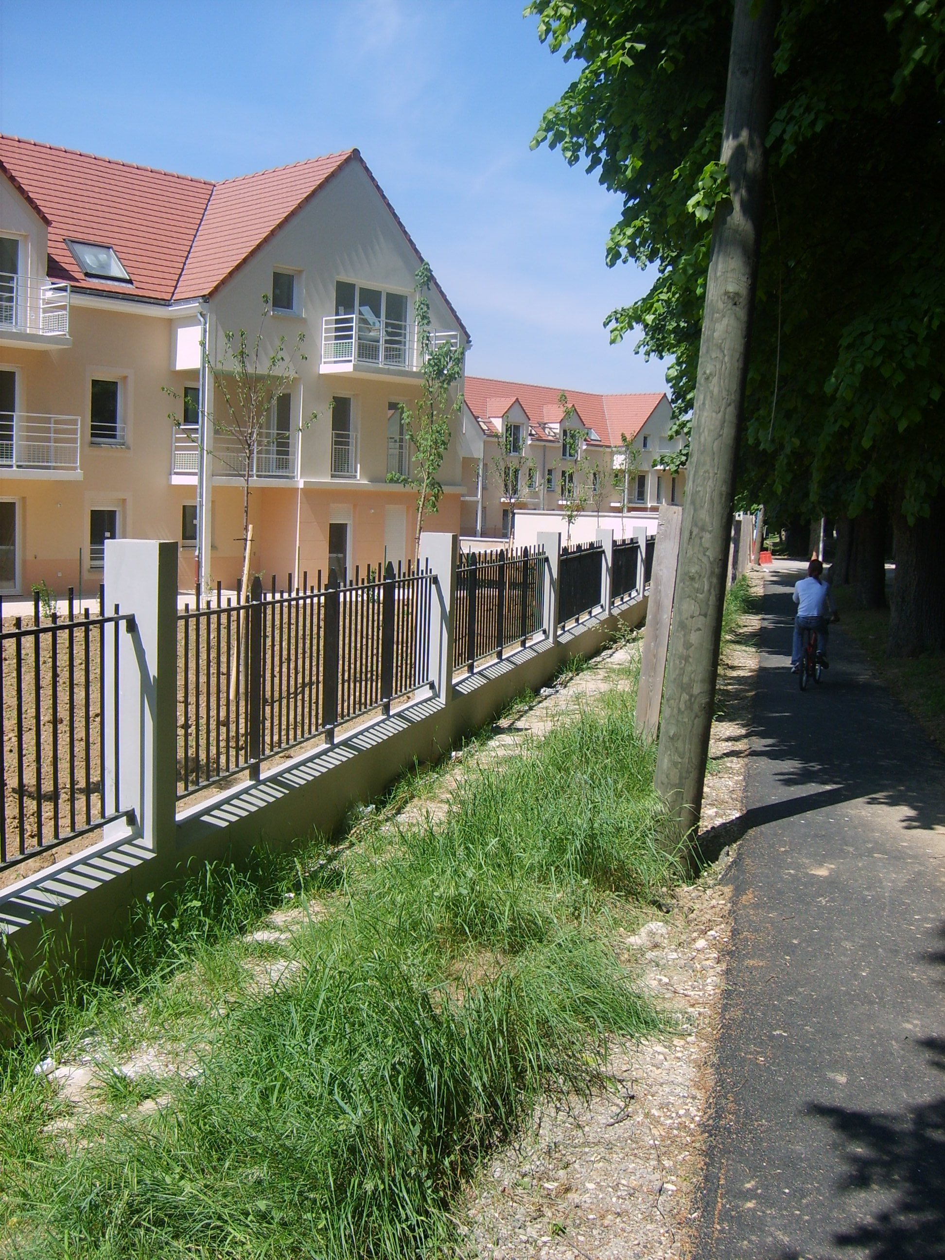 Constuction a brie Ct Robert